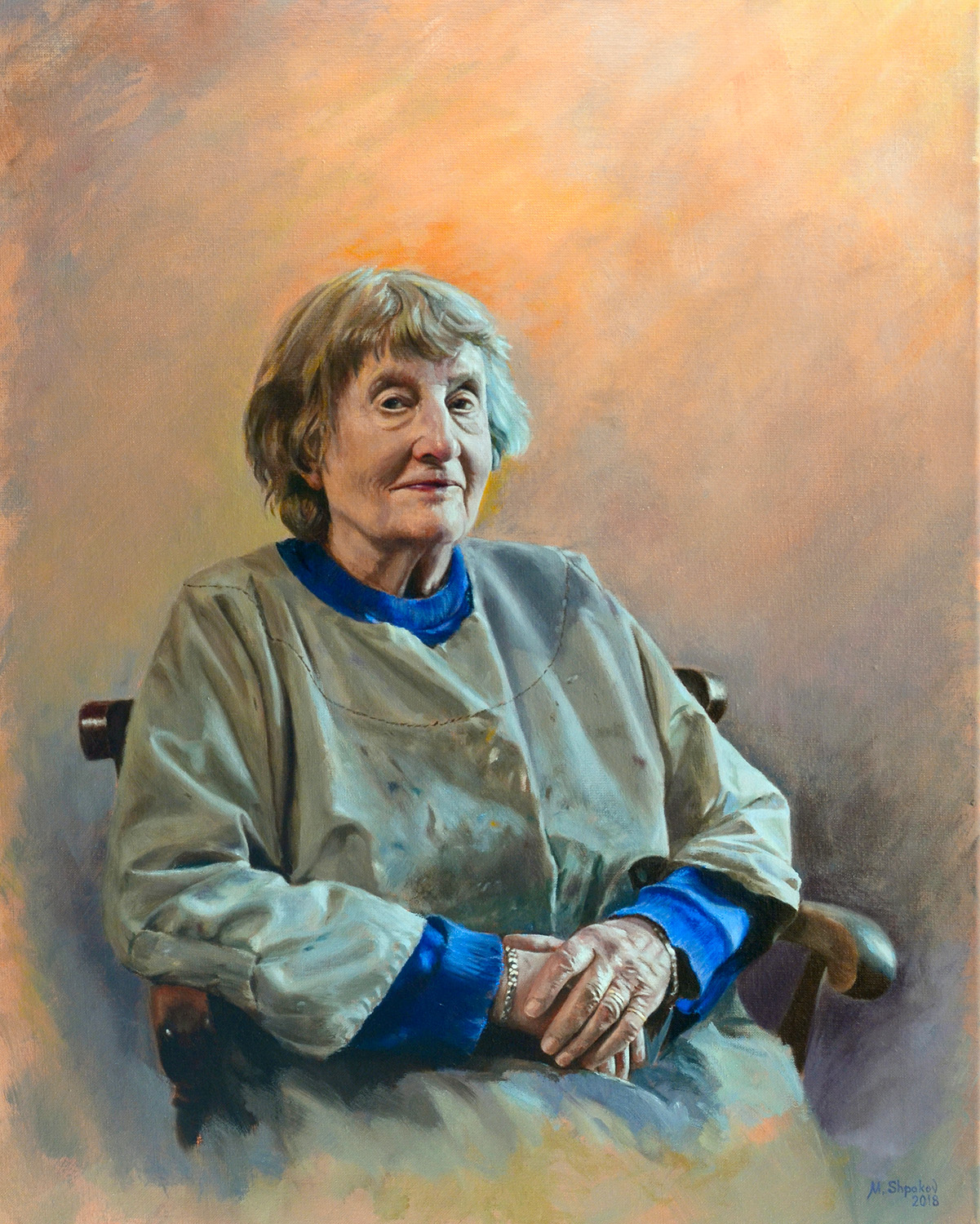 Portrait of an artist Rosa Branson MBE, oil on canvas, 24 x 30 inch